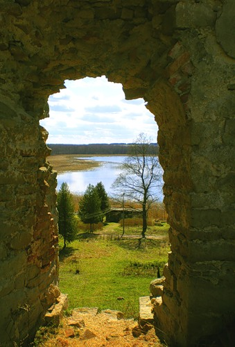 View to the park of Ceremenec monastery